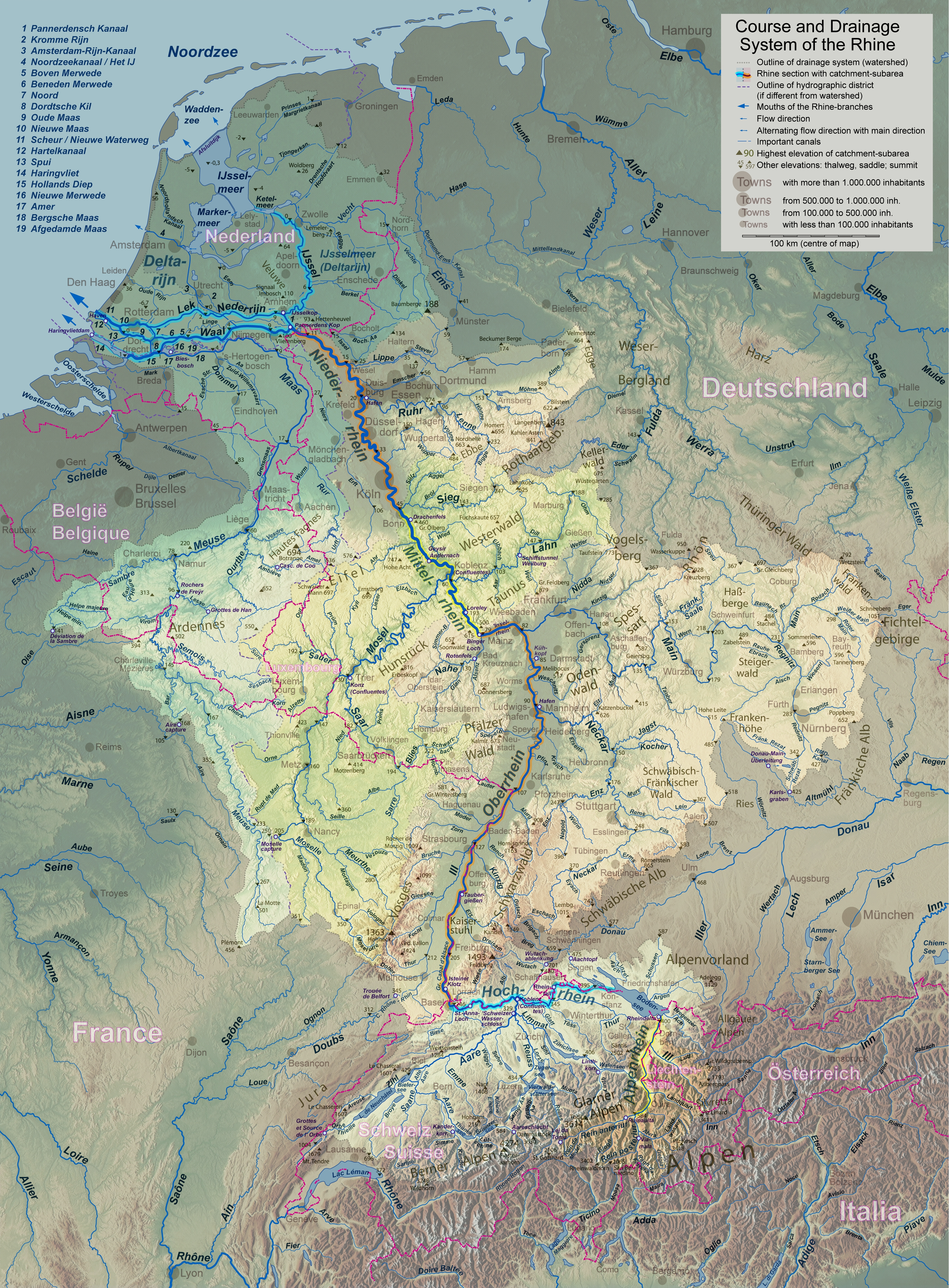 Rhine course and river system, place names in the countries' languages